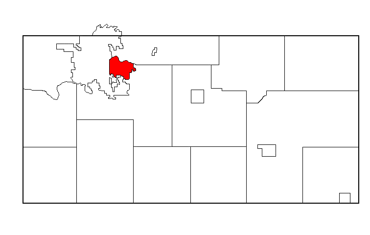 I made this map to show where Altoona is situated in Eau Claire County.